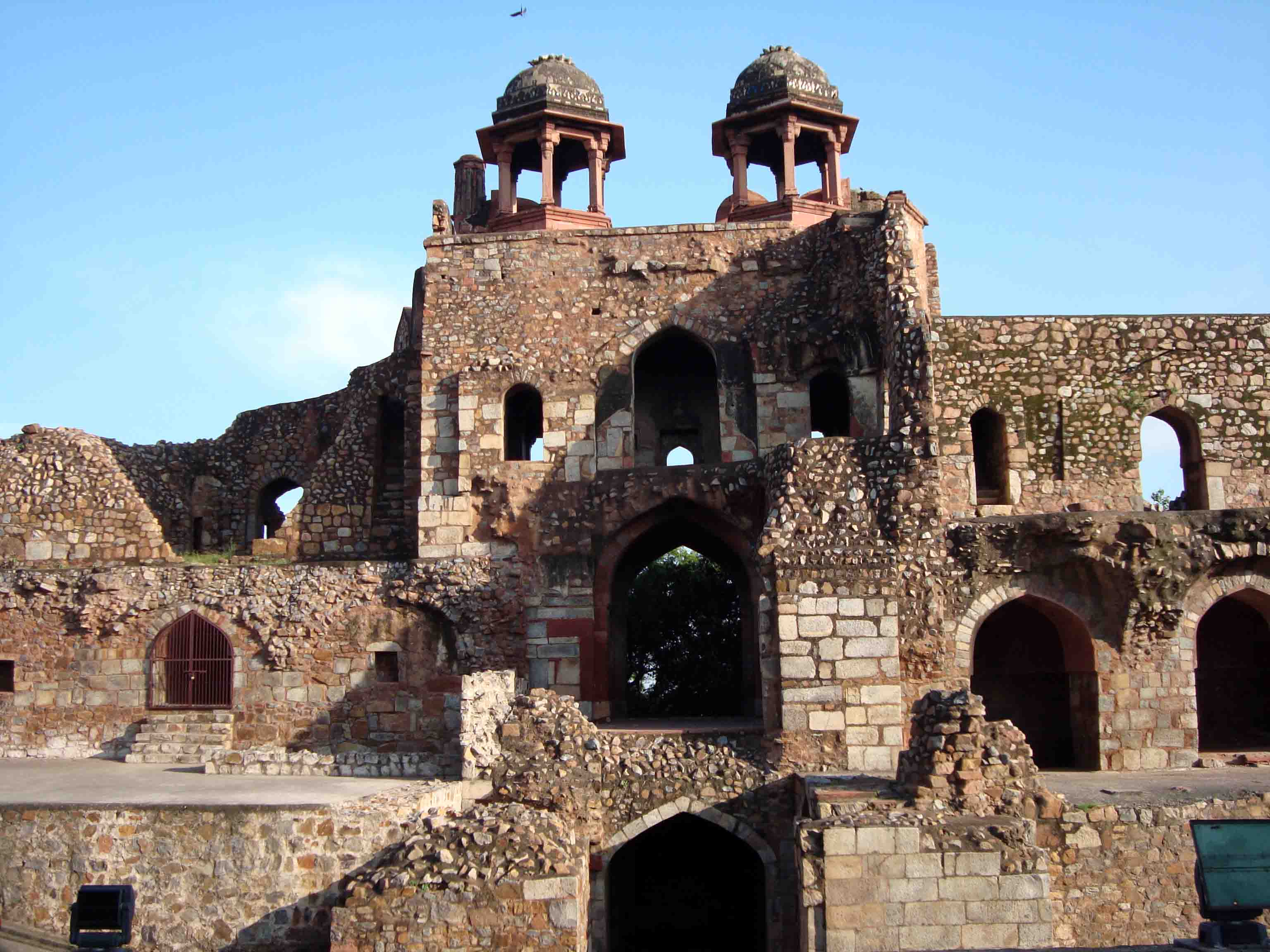 Purana Quila & Quila's complex